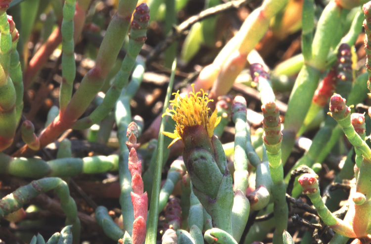 Jaumea carnosa at Humboldt Bay National Wildlife Refuge Complex, California, USA